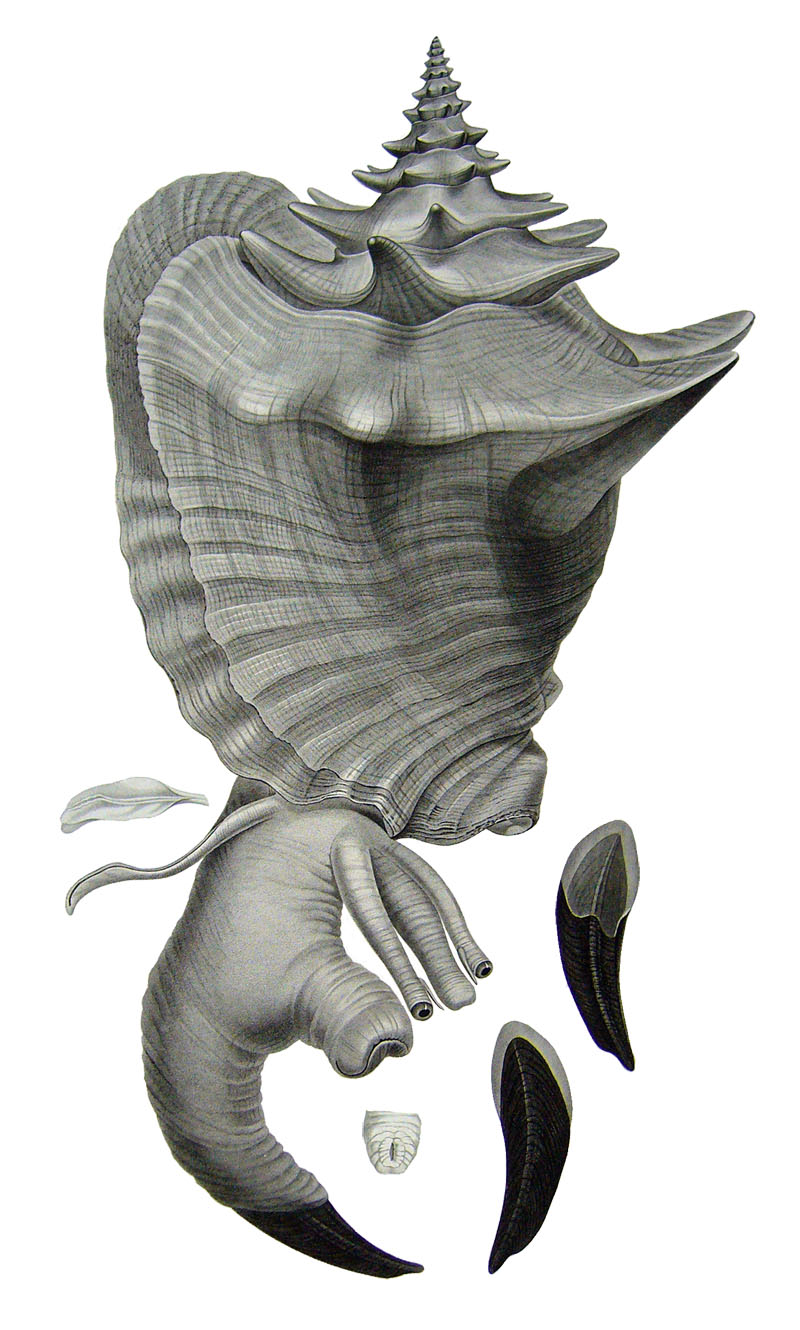 Drawing of Strombus gigas from Duclos in Chenu, 1844